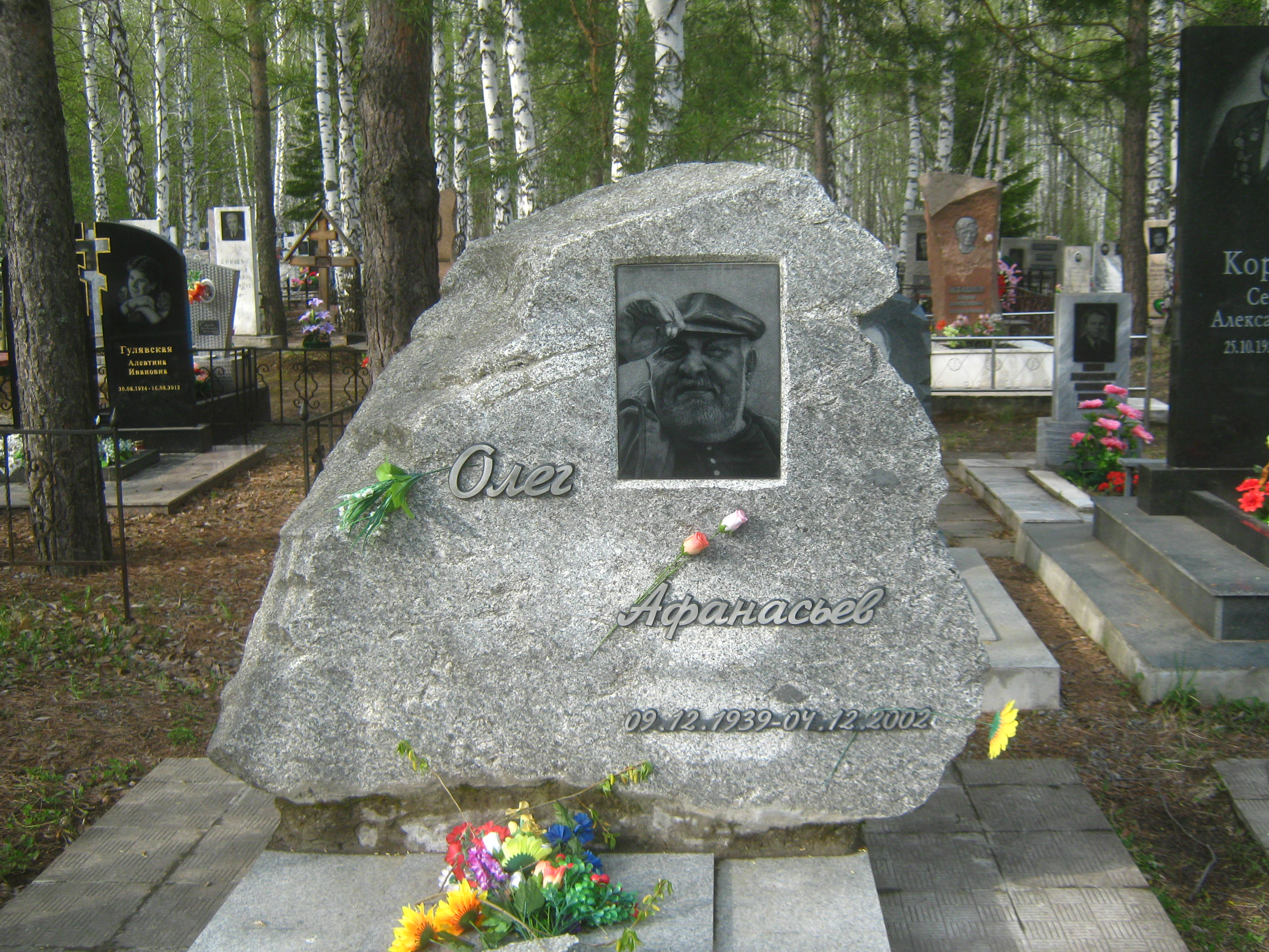 Олег Афанасьев на Бактине